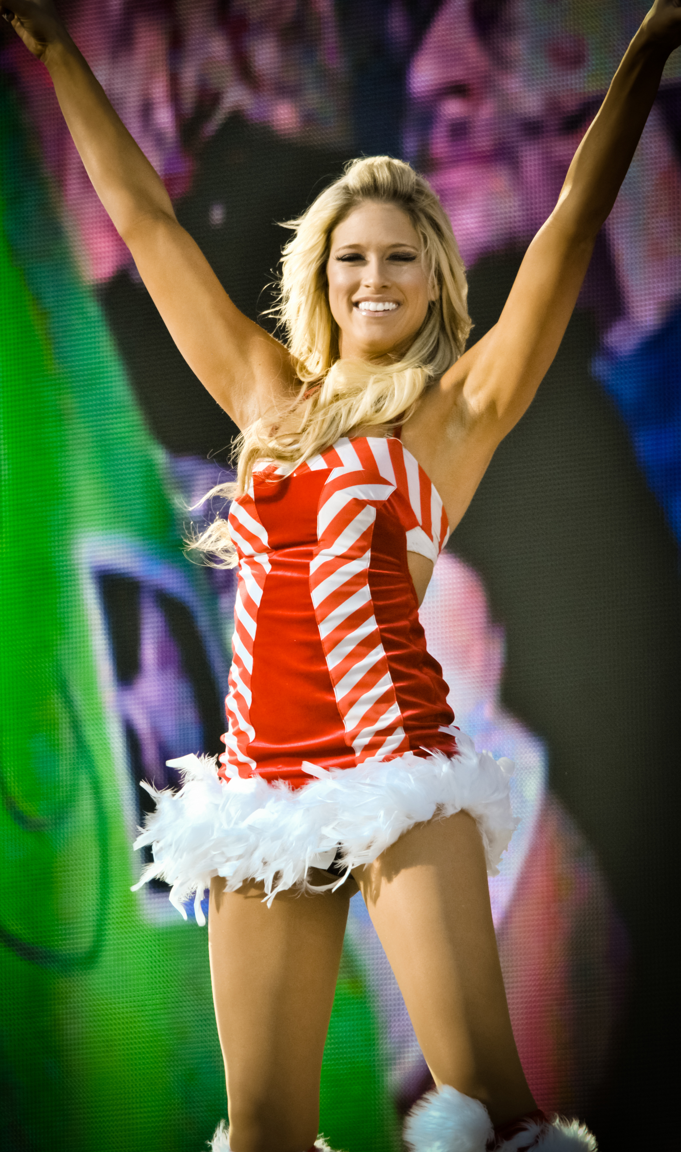 kelly Kelly at Tribute to the Troops, December 11, 2010, Fort Hood, Texas.